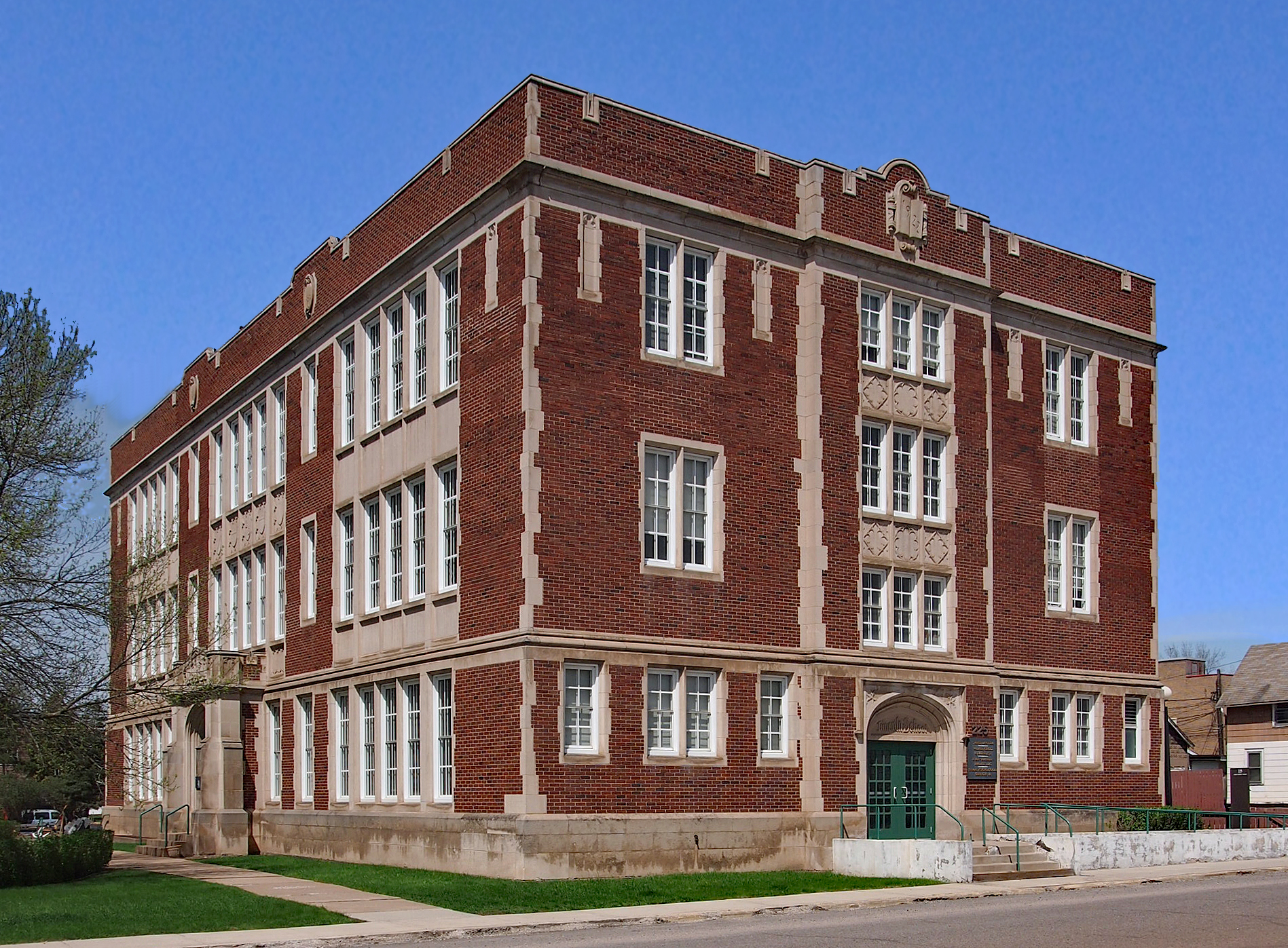 Lincoln School Building, Virginia, Minnesota, USA. Viewed from the southwest.